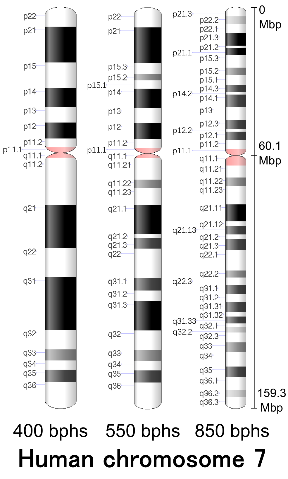 Ideograms of G-band pattern of human chromosome 7 in three different resolutions (400, 550 and 850 bphs, bands per haploid set). Different resolutions are corresponding to different band patterns observed through mitotic phase (about relation between banding resolution and mitotic phase, see, for example, Fig.3 in W Sethakulvichaia (2012)). Legend: Black and gray is Giemsa positive. Red is centromere. Light blue is variable region. Dark blue is stalk. At the right, centromere position (center) and q arm terminus position (bottom), counted from p arm terminus (top) in Mbp (mega base pairs), are labeled. Physical length (sometimes referred as "absolute length") is not labeled. Because physical length of chromosomes vary while mitosis. (typical human chromosome physical length is in the order of from several micrometers to ten and several micrometers. See, for example, Category:Human chromosome images with scale bars.).